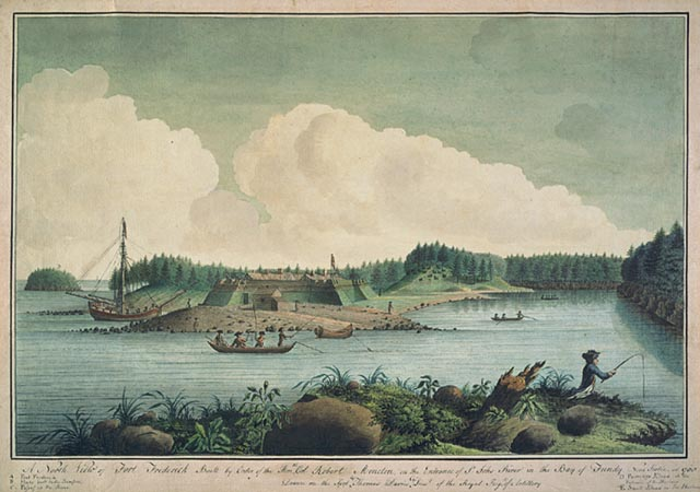 The St. John River Campaign occurred during the French and Indian War when Colonel Robert Monckton led a force of 1150 British soldiers to destroy the Acadian settlements along the banks of the Saint John River. Monckton established a new base of operations by reconstructing the old French fortification Fort Menagoueche at the mouth of the river. He re-named it Fort Frederick. Destroyed in 1777, it was replaced by nearby Fort Howe.